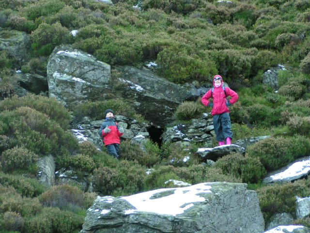 Balnamoon's Cave in Glen Mark, Angus, Scotland, where "the Rebel Laird" James Carnegie Arbuthnott, Lord of Balnamoon, hid from government forces after escaping from the Battle of Culloden in 1746.